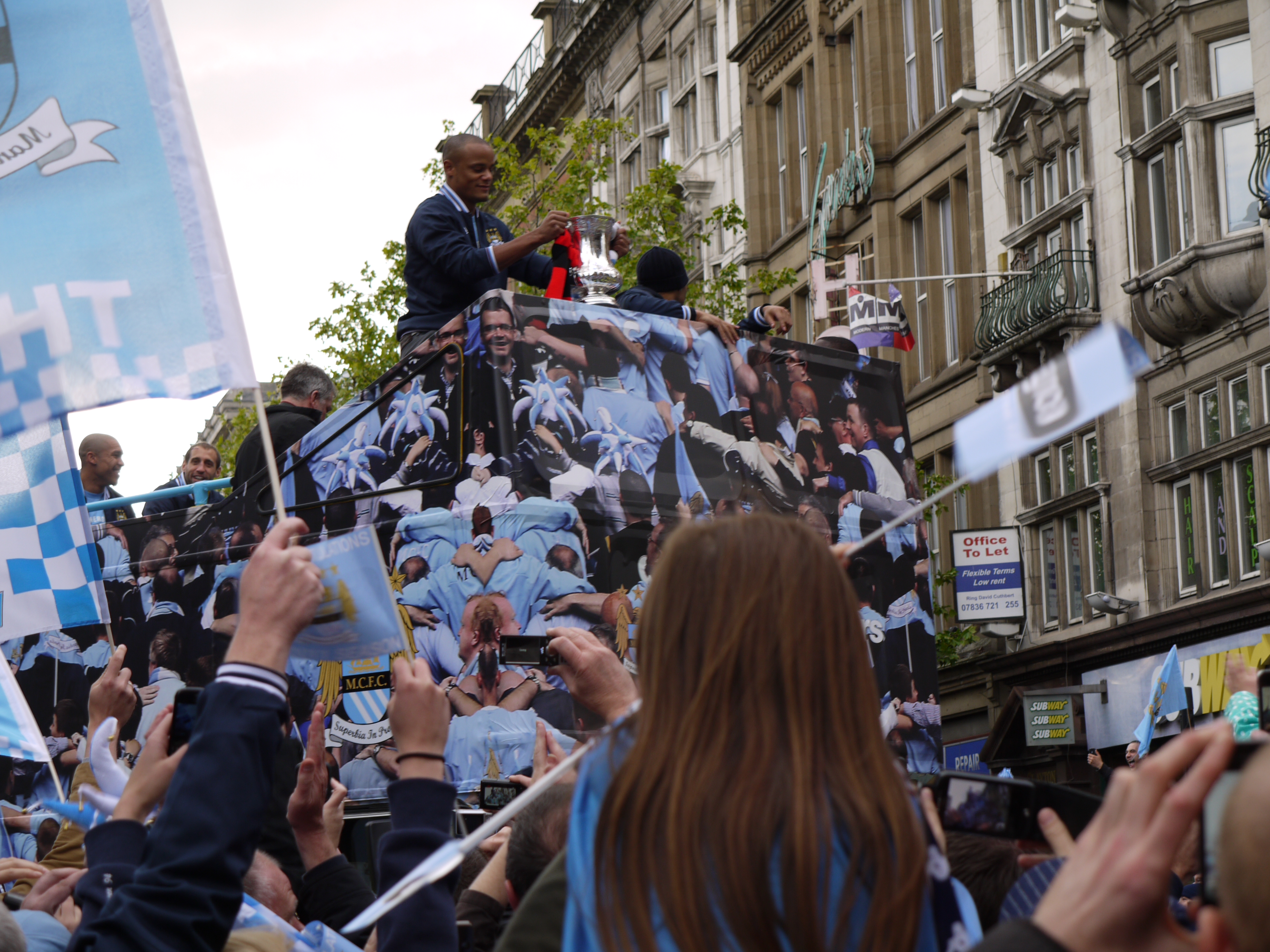 Manchester City FC. FA Cup Winners 2011